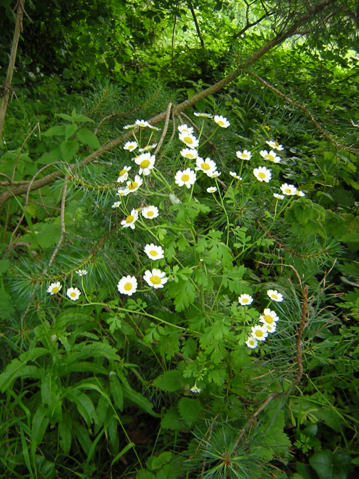 Tanacetum parthenium Coutances, France Source : [1]